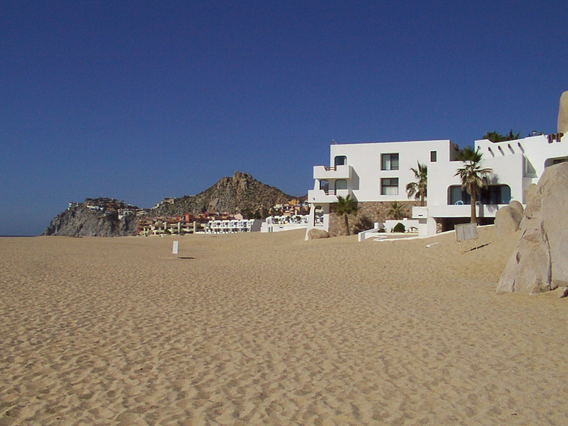 Family vacation photo taken Christmas 2003, view from southern end of Playa Solmar, Cabo San Lucas, looking north. Hotel Solmar is in the foreground, with parts of the TerraSol and Playa Grande resorts visible behind it. As I recall, the signs in the foreground warn against swimming; there are swift currents here. The houses on the top of the cliff are part of Pedregal, which are private vacation homes.